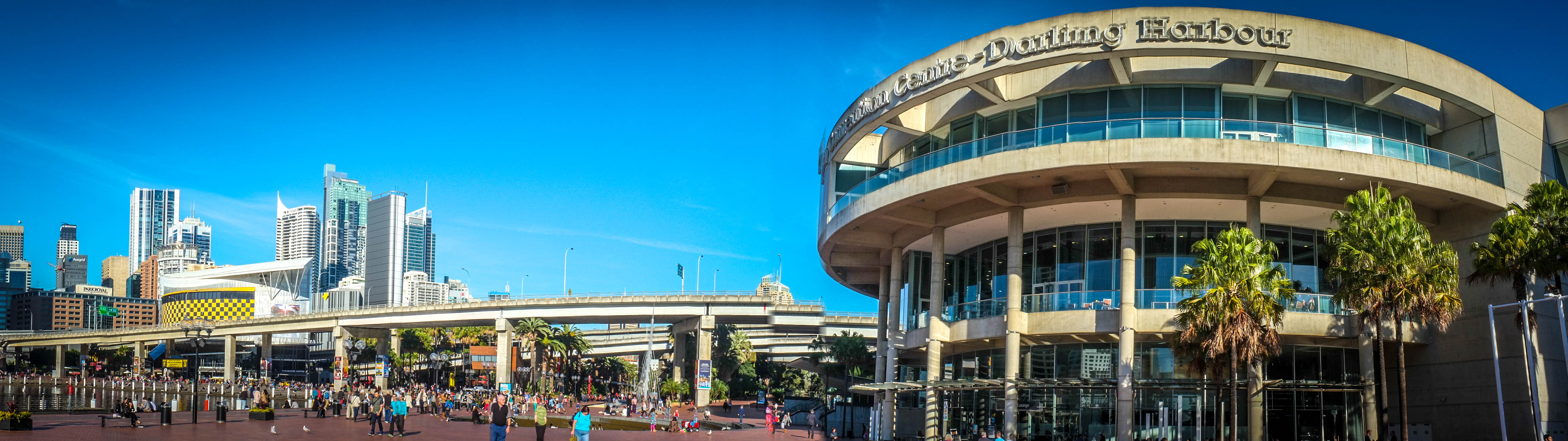 Sydney Convention and Exhibition Centre